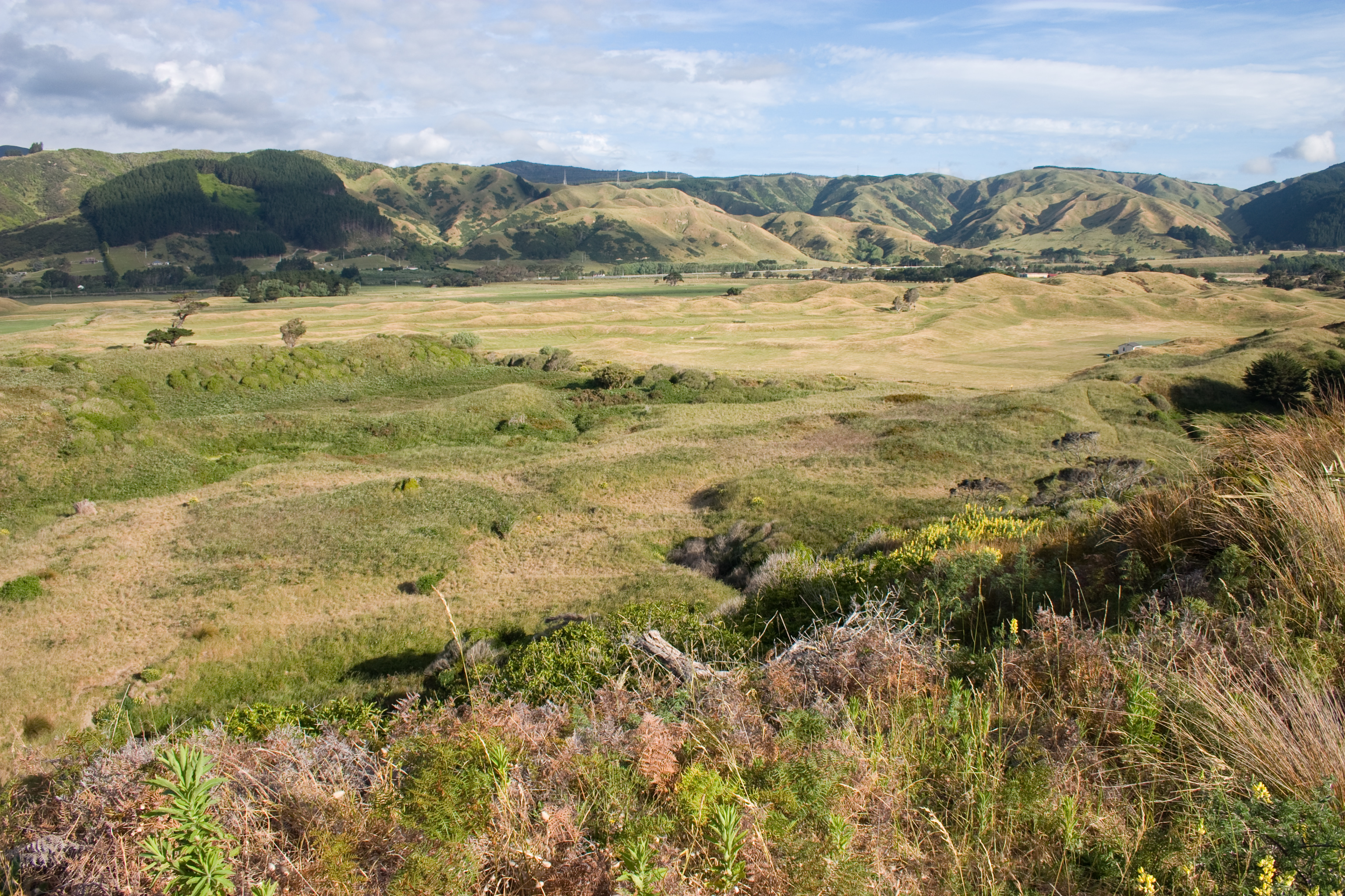 The sparse undulating terrain of Queen Elizabeth Park looking towards SH1 running along the foothills in distance. The clump of dark trees in the distance to the offset to the right is MacKay's Crossing, the entrance to QE Park and the site of a recently built 4-lane bridge over the railway for SH1. Taken from Whareroa Pa.